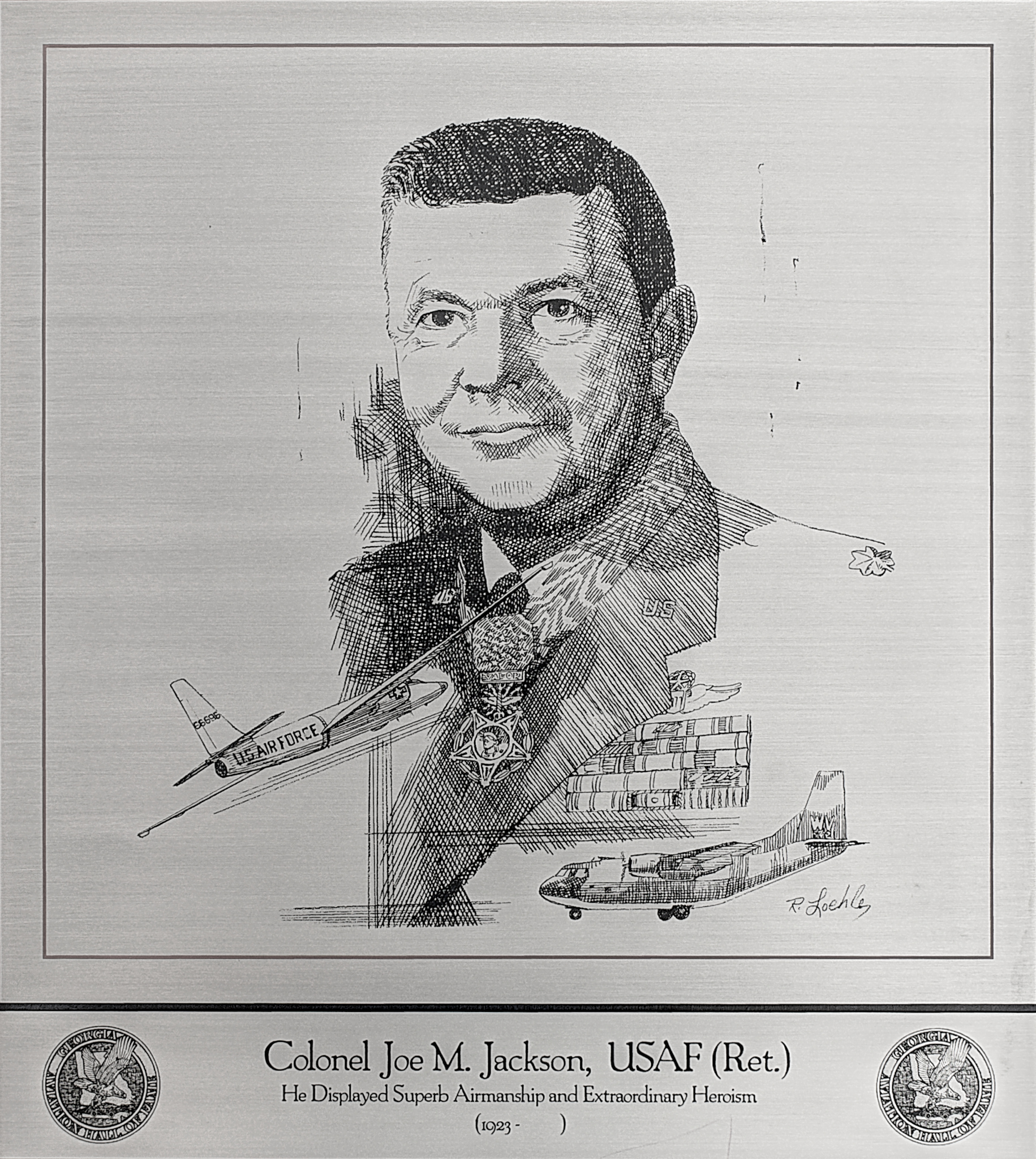 Colonel Joe M. Jackson